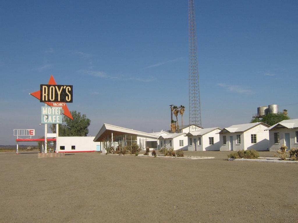 Roy's Motel and Cafe in Amboy, California in April 2007.